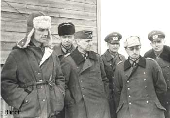 POW Field Marshall Paulus at Stalingrad